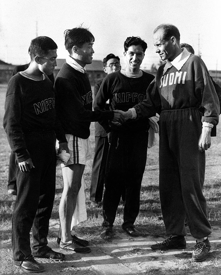 Japanese Marathon team members Onbai Kin or Kim Un-Bae (1st L), Taika Gon or Kwon Tae-Ha (2nd L) and Seiichiro Tsuda (2nd R) shake hands with 9-time olympic gold medalist Paavo Nurmi of Finland at a training session ahead of the 1932 Los Angeles Olympic on July 13, 1932 in Los Angeles, California